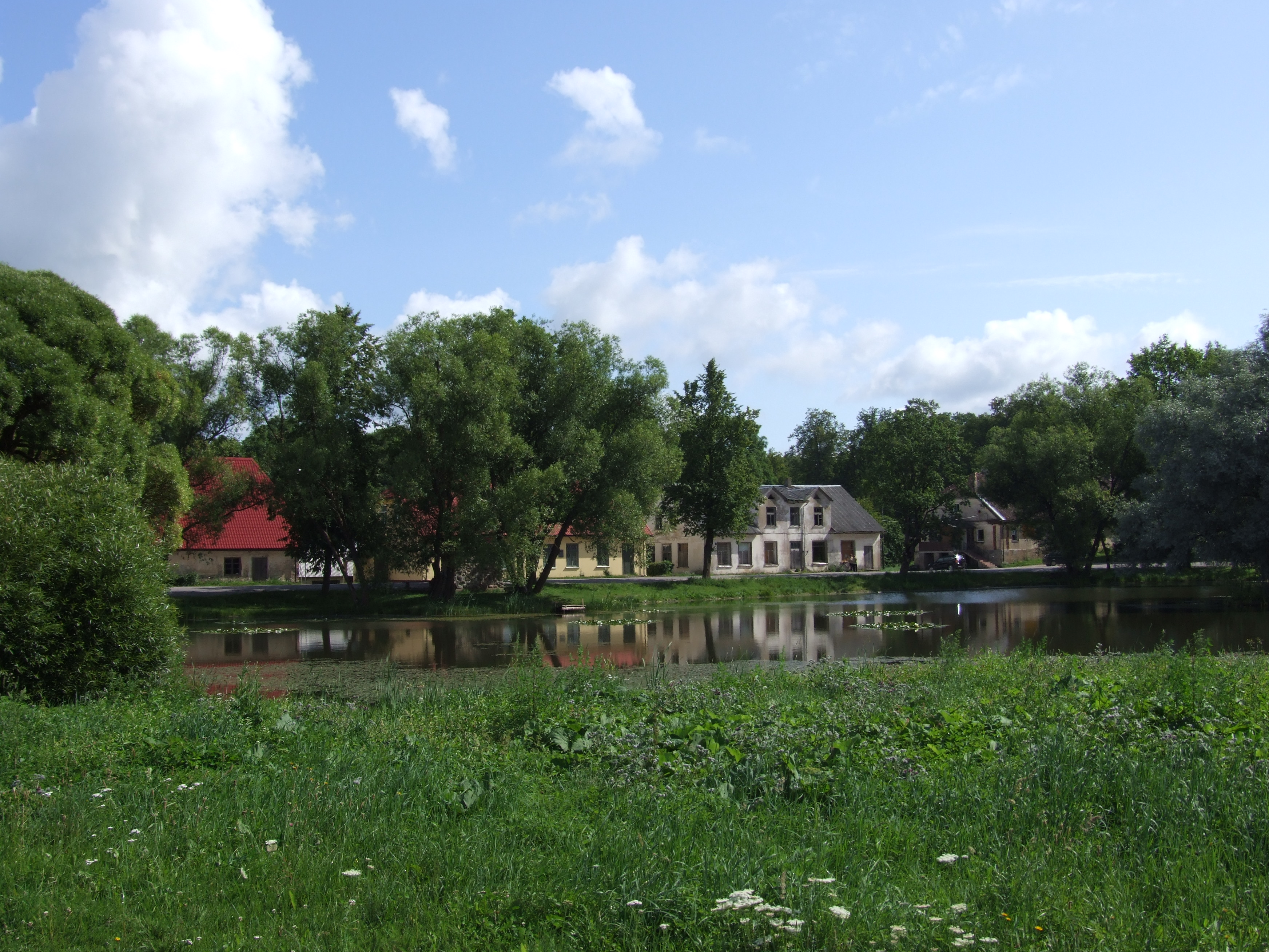 Skyline of Kabile village, Latvia